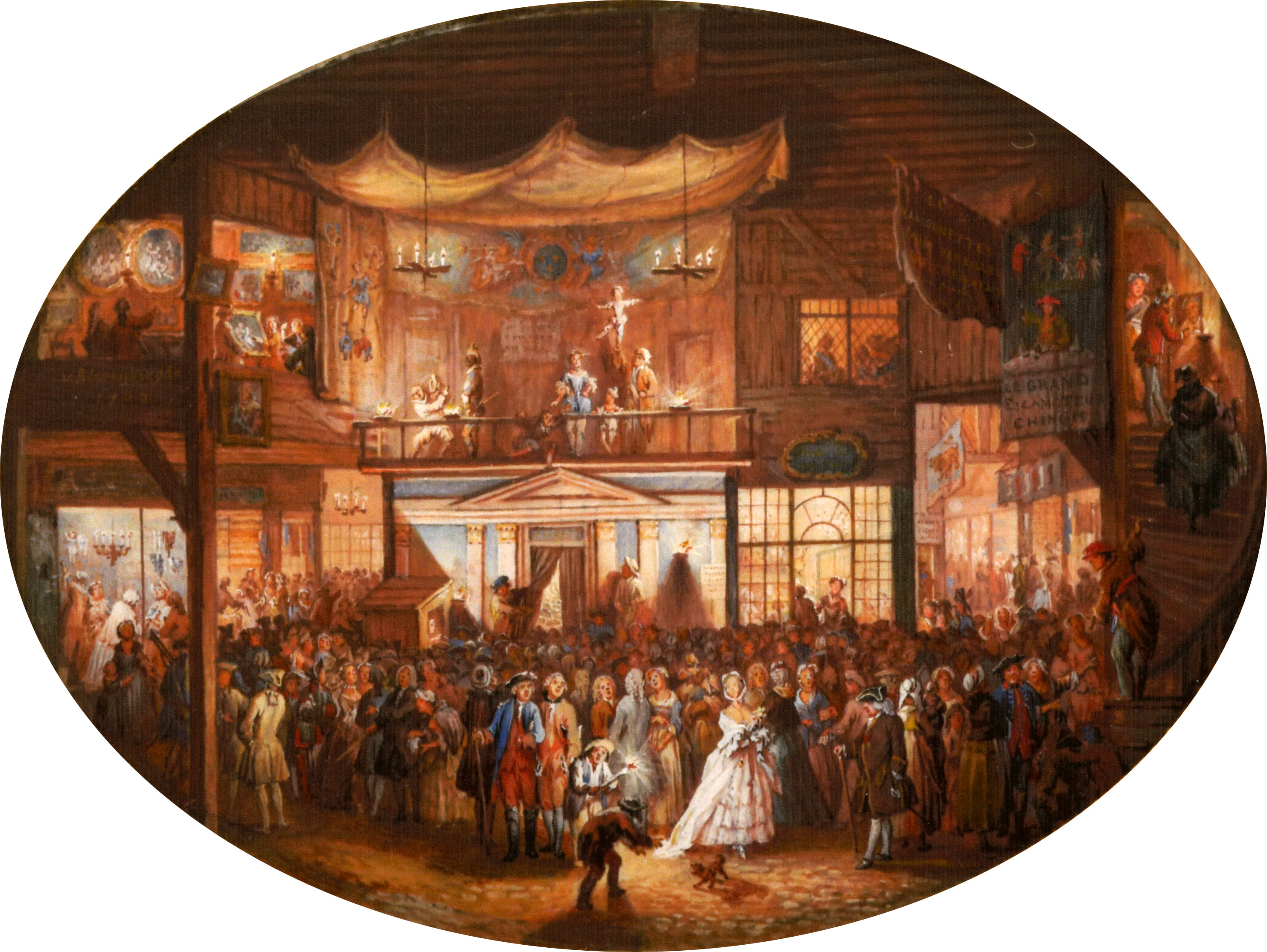 The Fair of Saint-Germain, miniature painted by one of the artists of the Blarenberghe family)